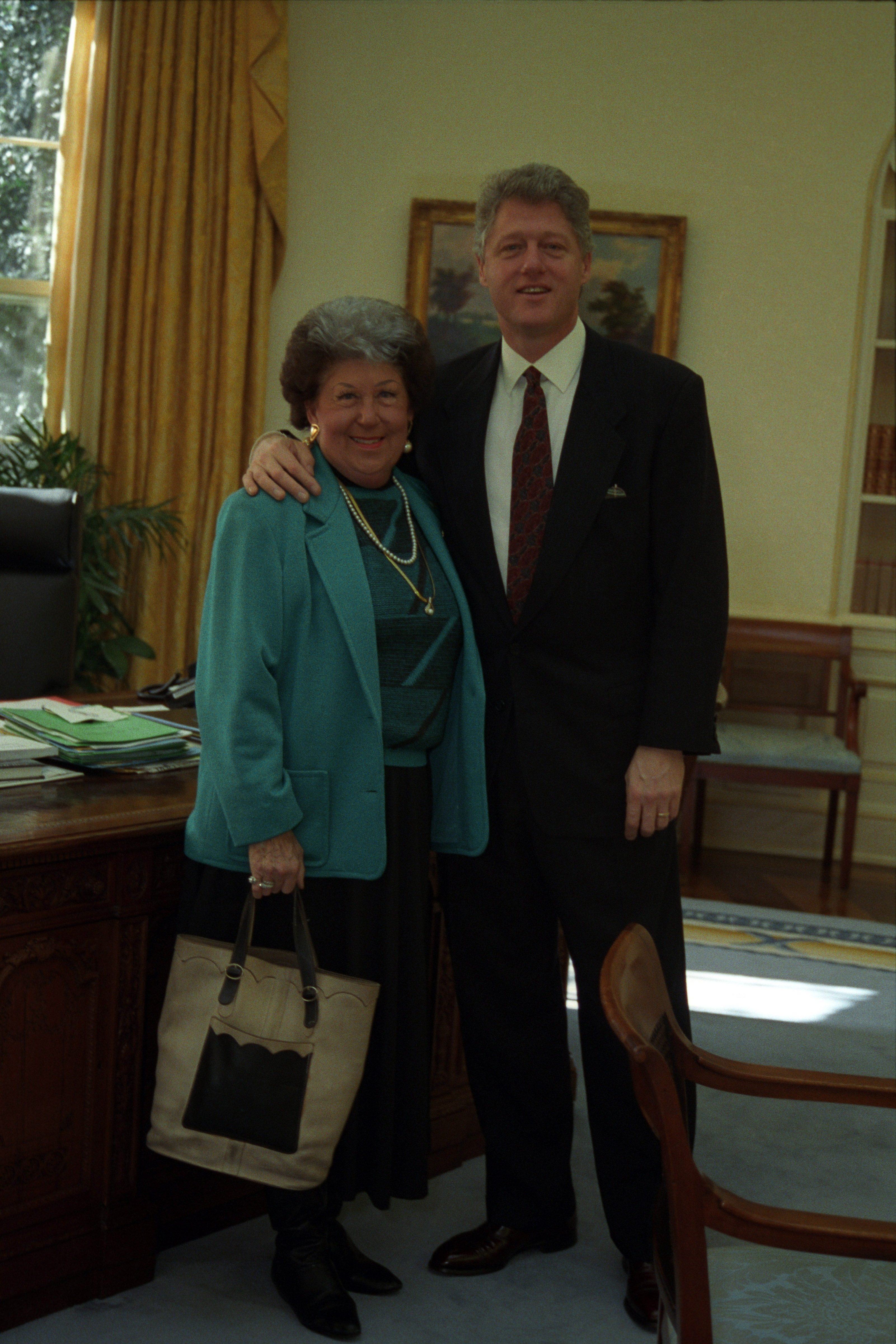 President Bill Clinton poses with his mother Virginia Kelley in the Oval Office.